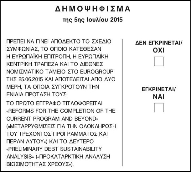 This is the ballot paper for the 2015 Greek bailout referendum, found on the official website of the Greek Ministry of Interior and Administrative Reconstruction. (OXI = No NAI = Yes). Text: ?